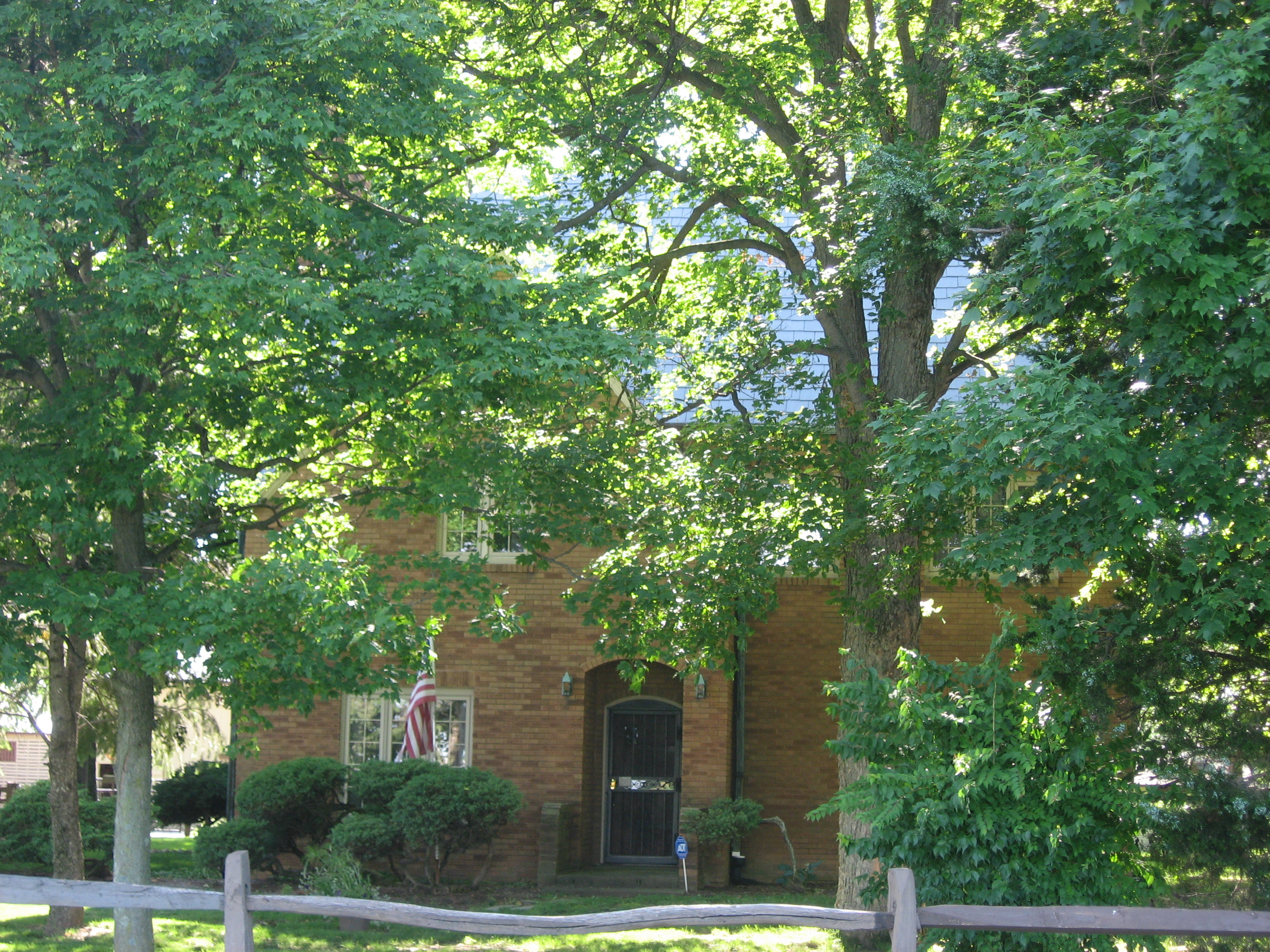 Front of the farmhouse at the Smith Farm, located at 2698 S. 900E northeast of Plainfield in Washington Township, Hendricks County, Indiana, United States. The 1928 farmhouse and other buildings in the farm complex are listed together is listed on the National Register of Historic Places.